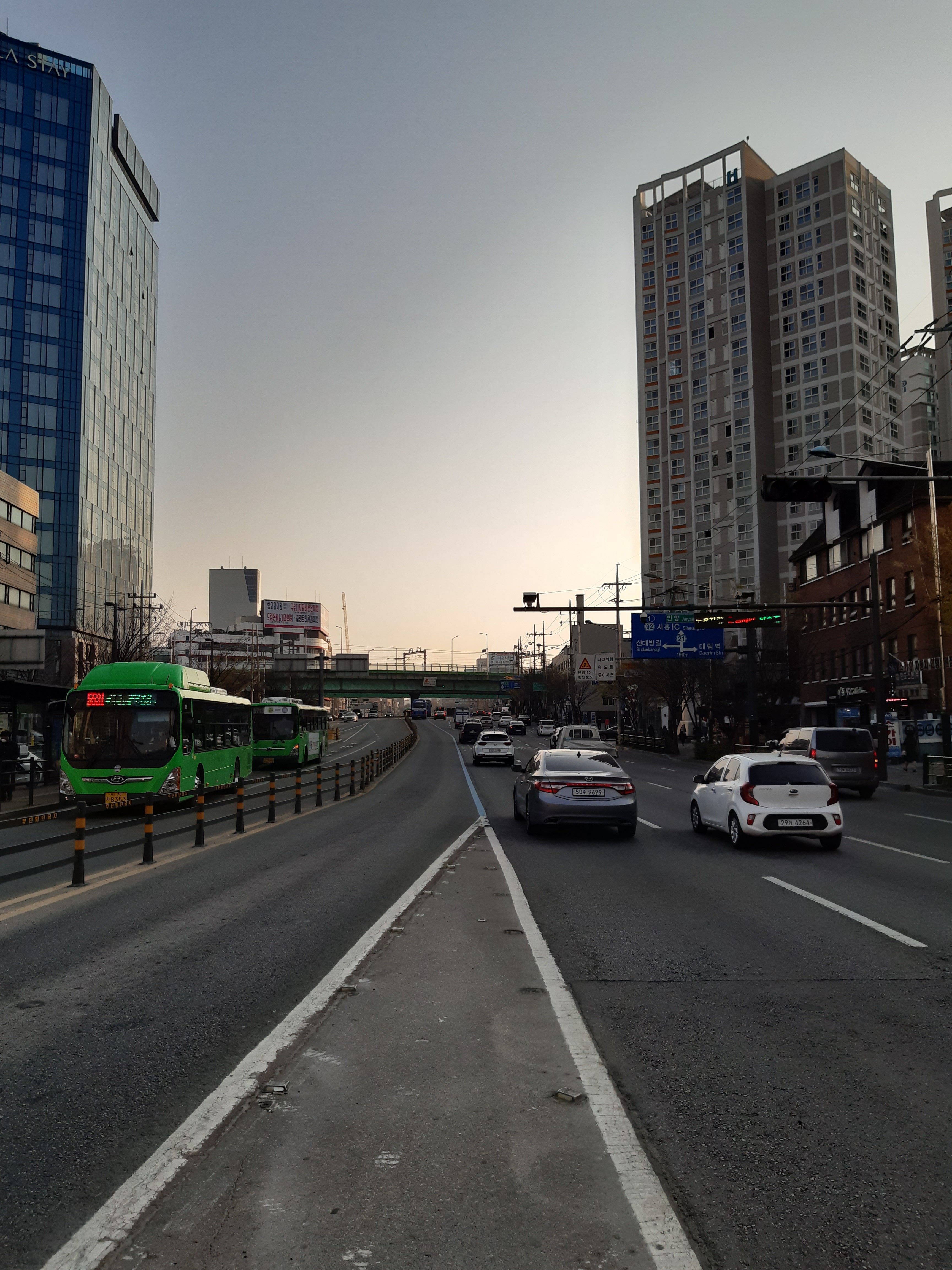 Seoul Siheung-daero